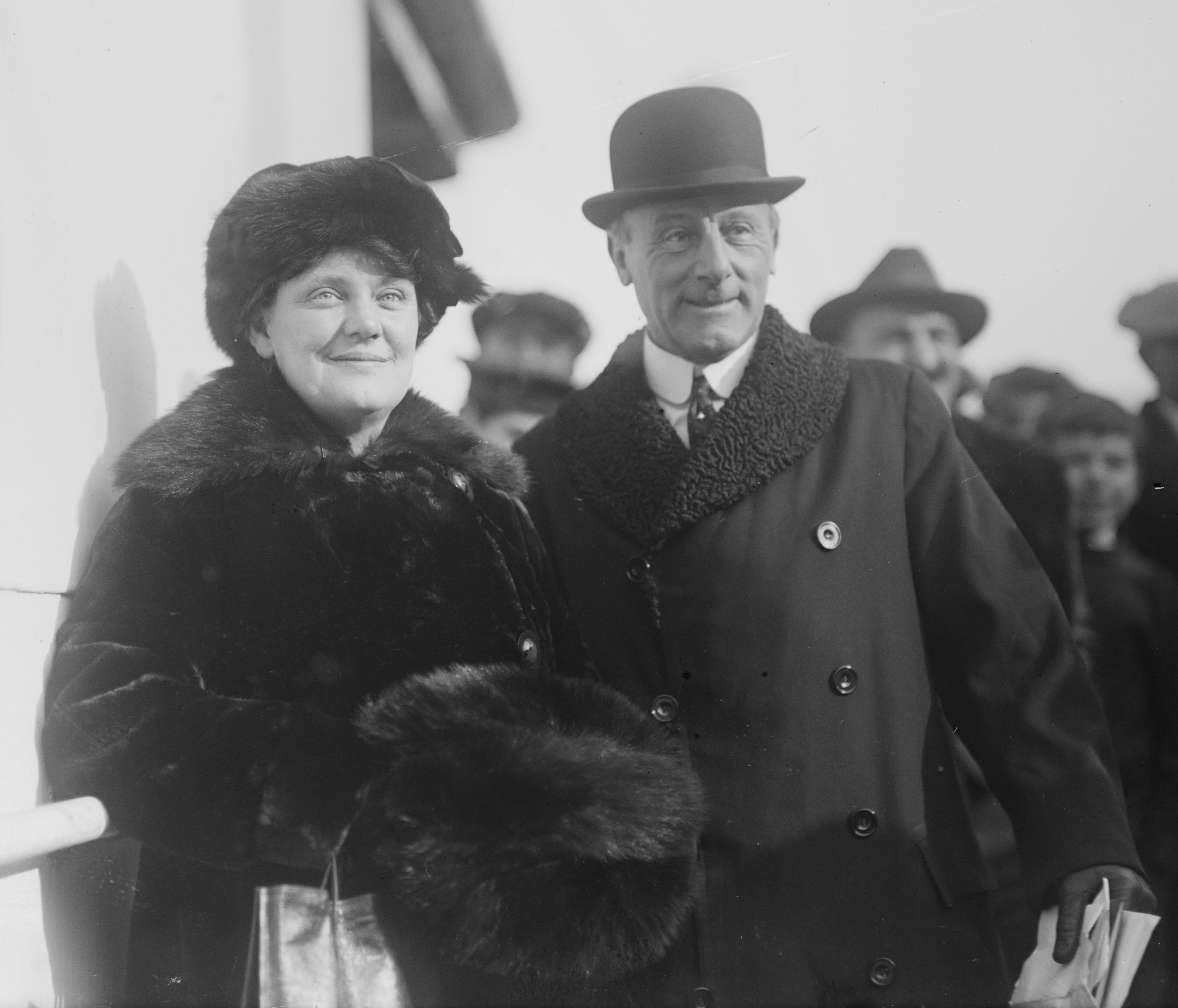 caption on original negative 'Admiral lord john jellicoe and wife'. Also has inscribed date 12/11/24 unclear whether that is US or UK nomenclature, but probably US. Appears to be taken on board a ship.